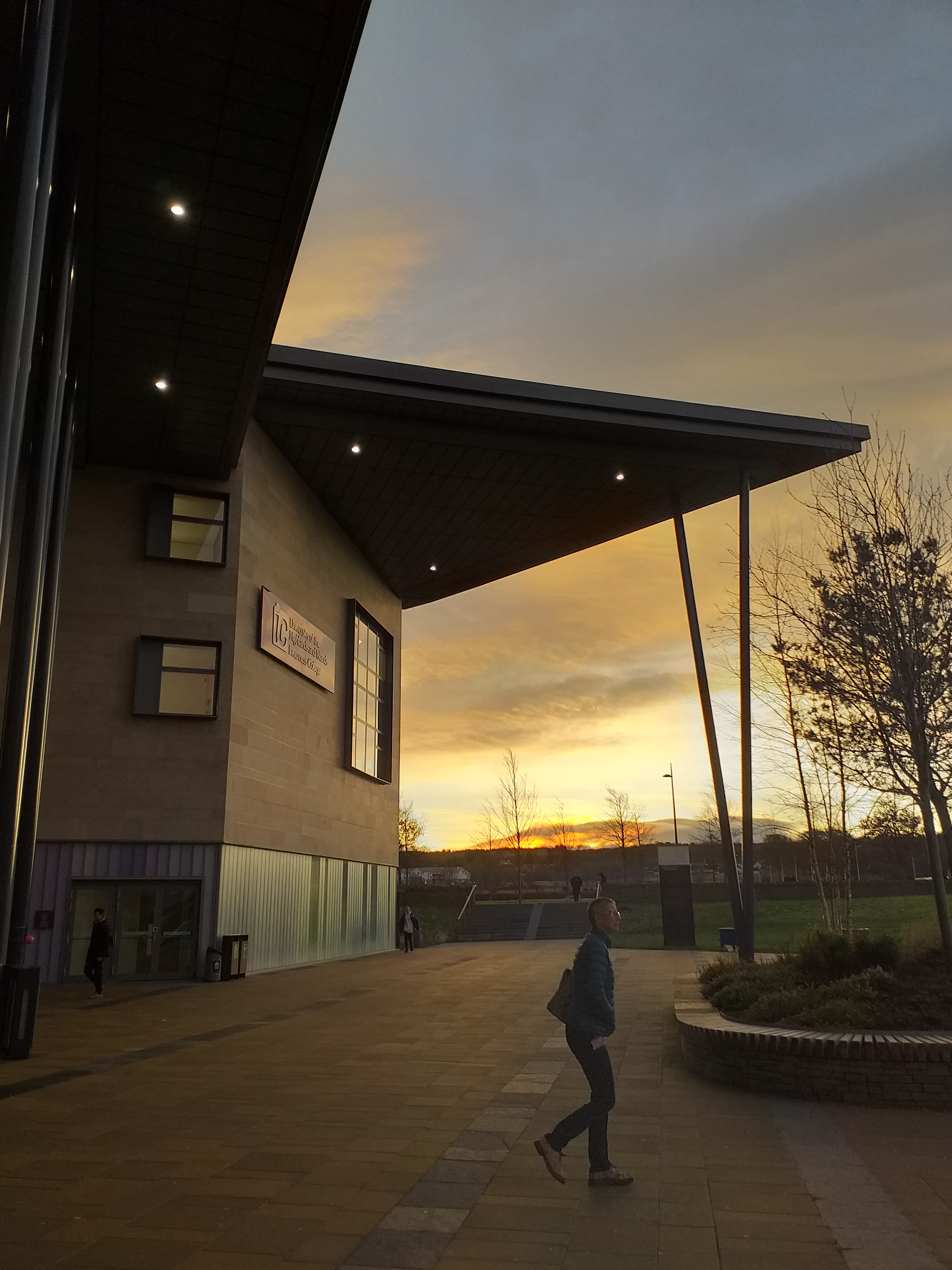 Exterior of the University of the Highlands & Islands Inverness College campus, taken January 2020.